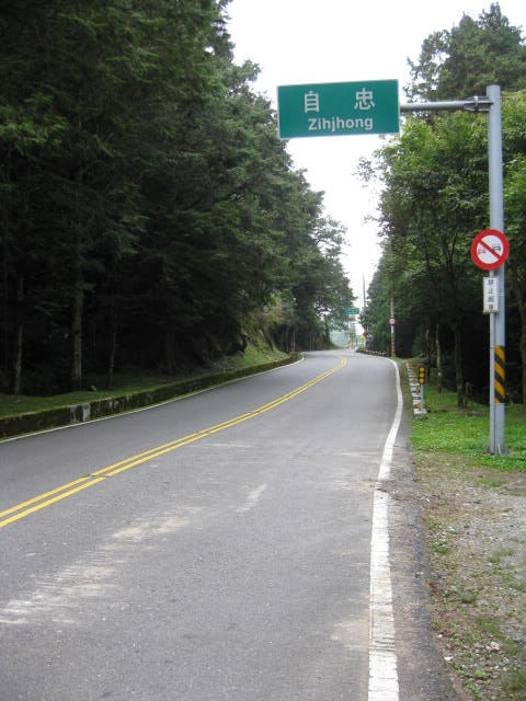 Zihjhong is a drainage divide in Taiwan,on the border of Nantou and Chiayi.The picture shows the drainage divide of the river Zengwun and Zhuoshui at Zihjhong.